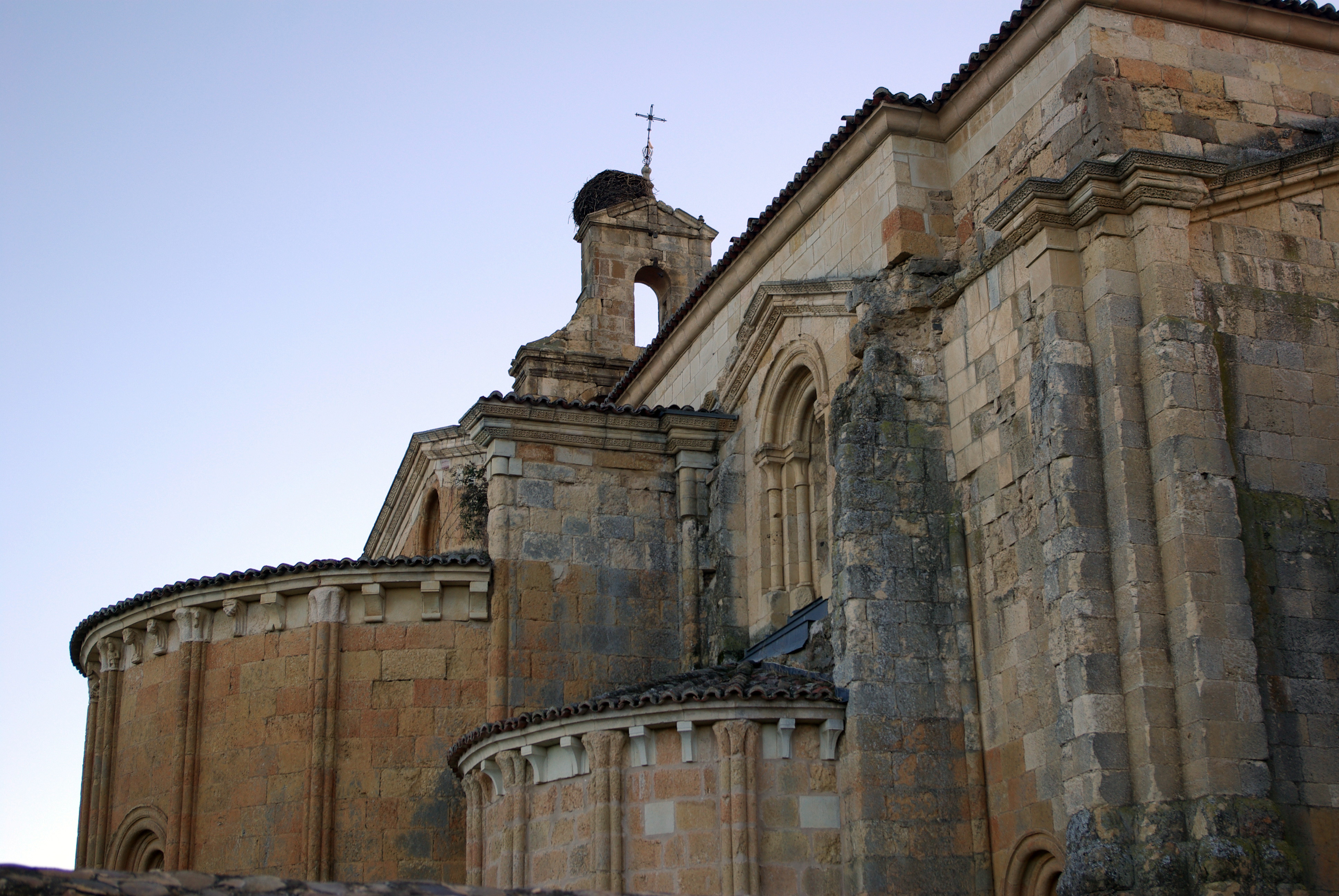 Monastery of Saint Mary of Sandoval in Villaverde de Sandoval, Mansilla Mayor (León, Spain).